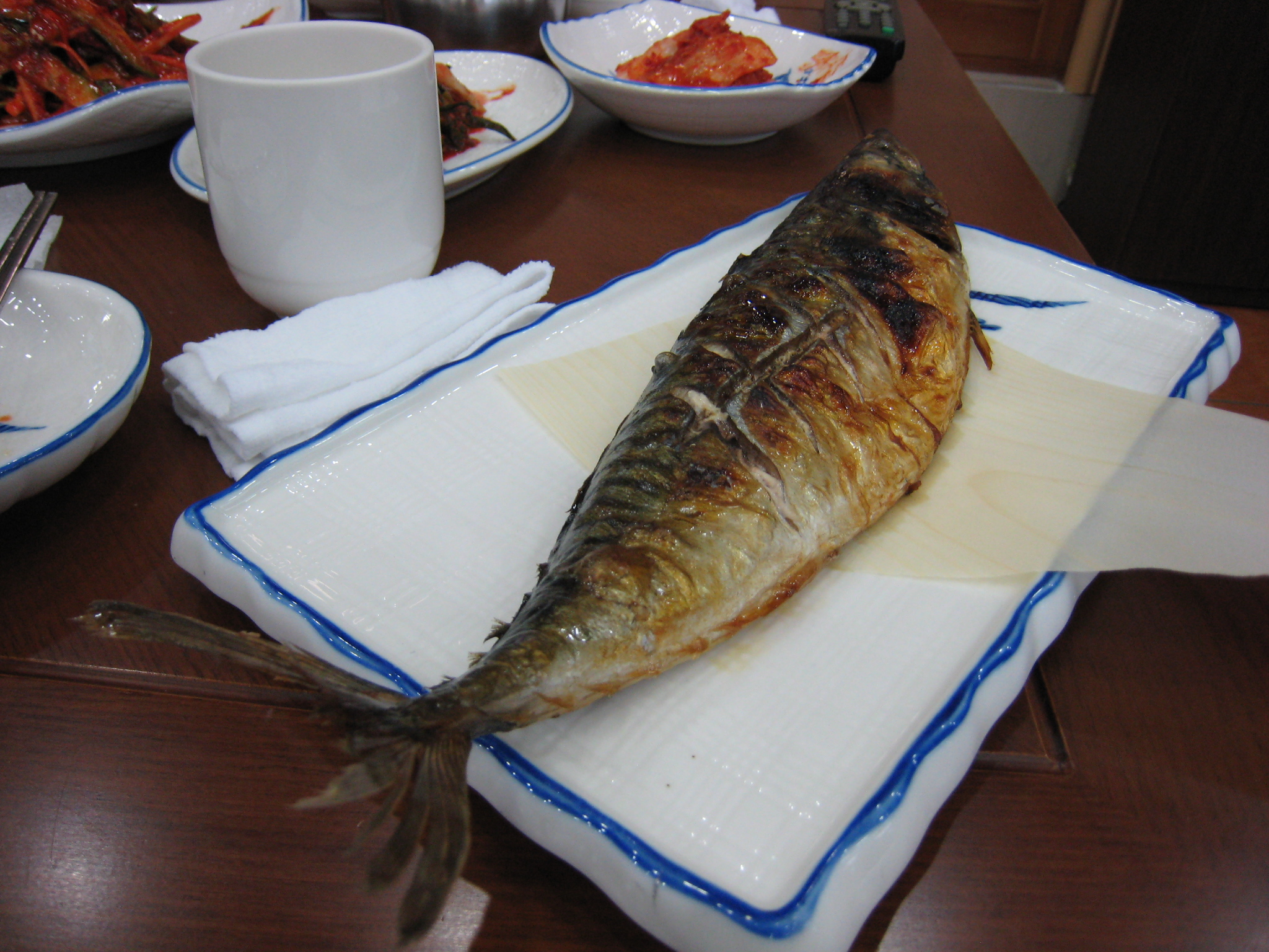 Saengseon gui (grilled fish) in Korean cuisine